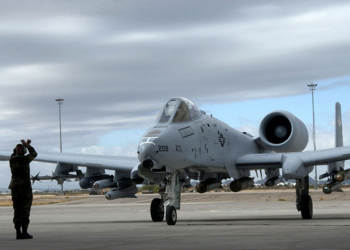 A newly modified A-10C Thunderbolt II taxis in during the roll-out ceremony Nov. 29 at Davis-Monthan Air Force Base, Ariz. The A-10 has been modified with precision engagement technology to create the new and improved A-10C.